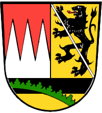 Coat of Arms of the German district Haßberge